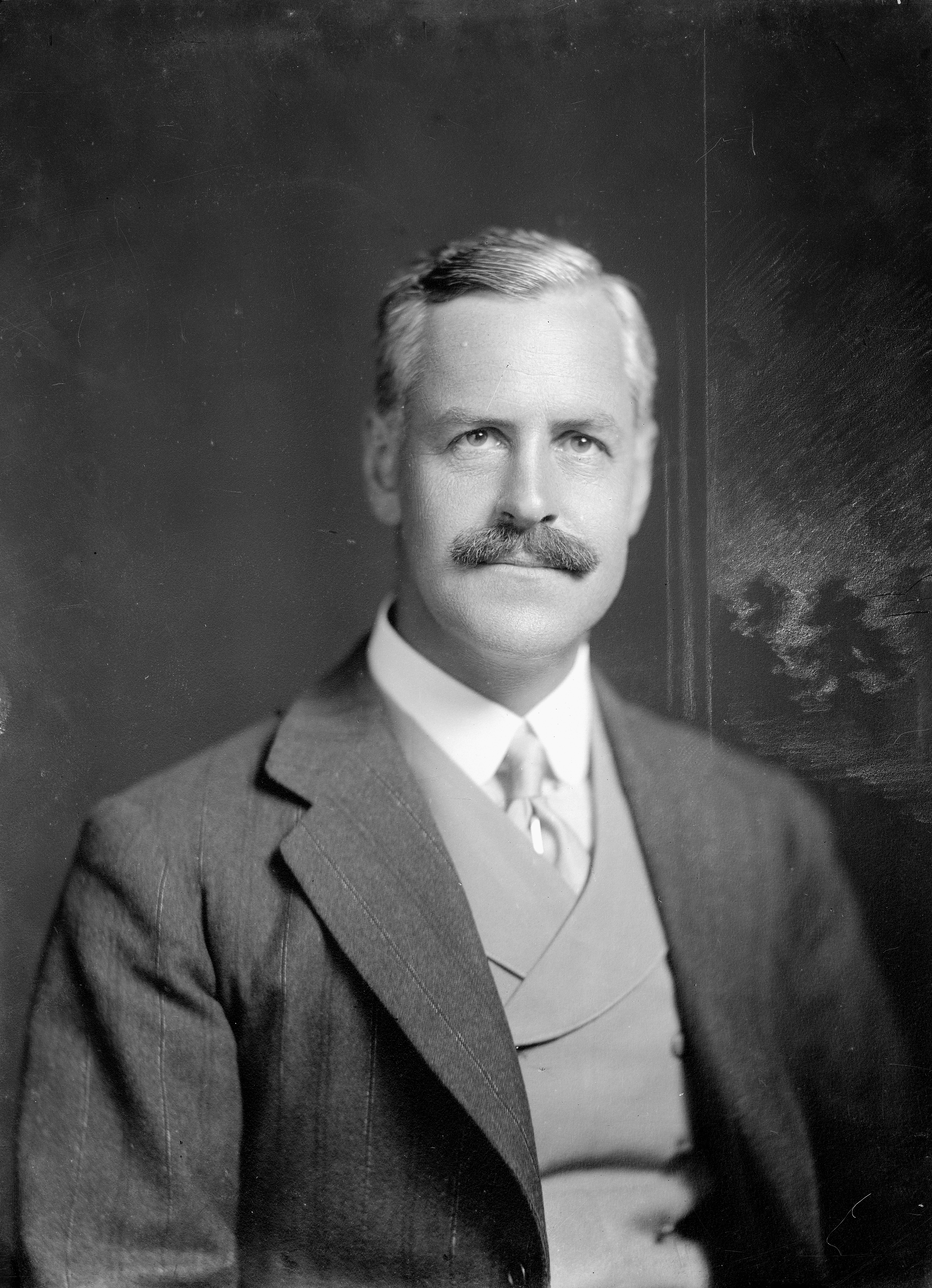 Vernon Herbert Reed, photographed by the studio of S P Andrew Ltd on 8 November 1910. Slightly cropped. Inscriptions: Inscribed - Marginal notes on negative -above image: Reed Mr V H 1 Folio [12? or R?] 8.11.10 Reduce shadow under chin.